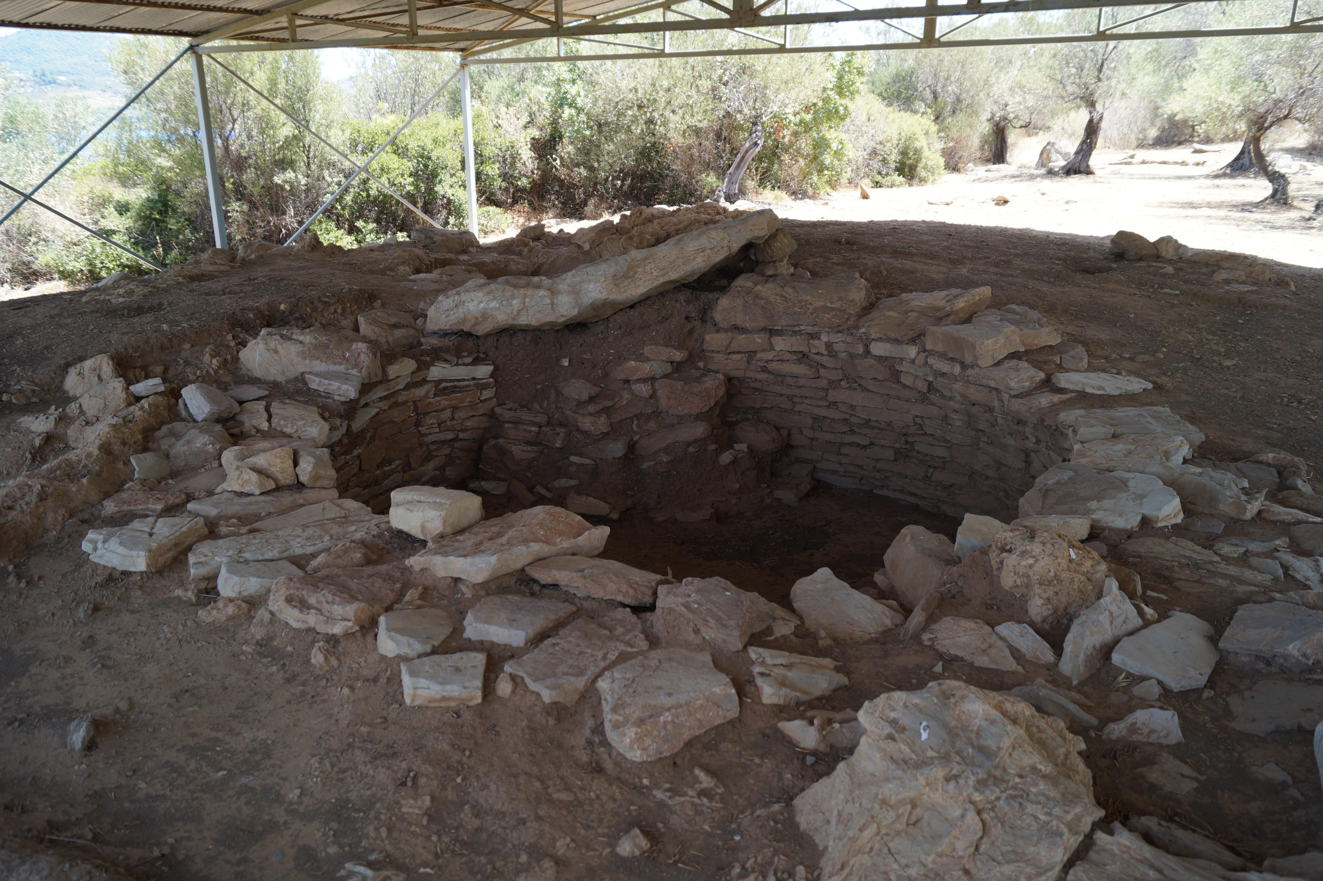 Greece, Peloponnes, Megali Magoula: Tholos of tomb 2.